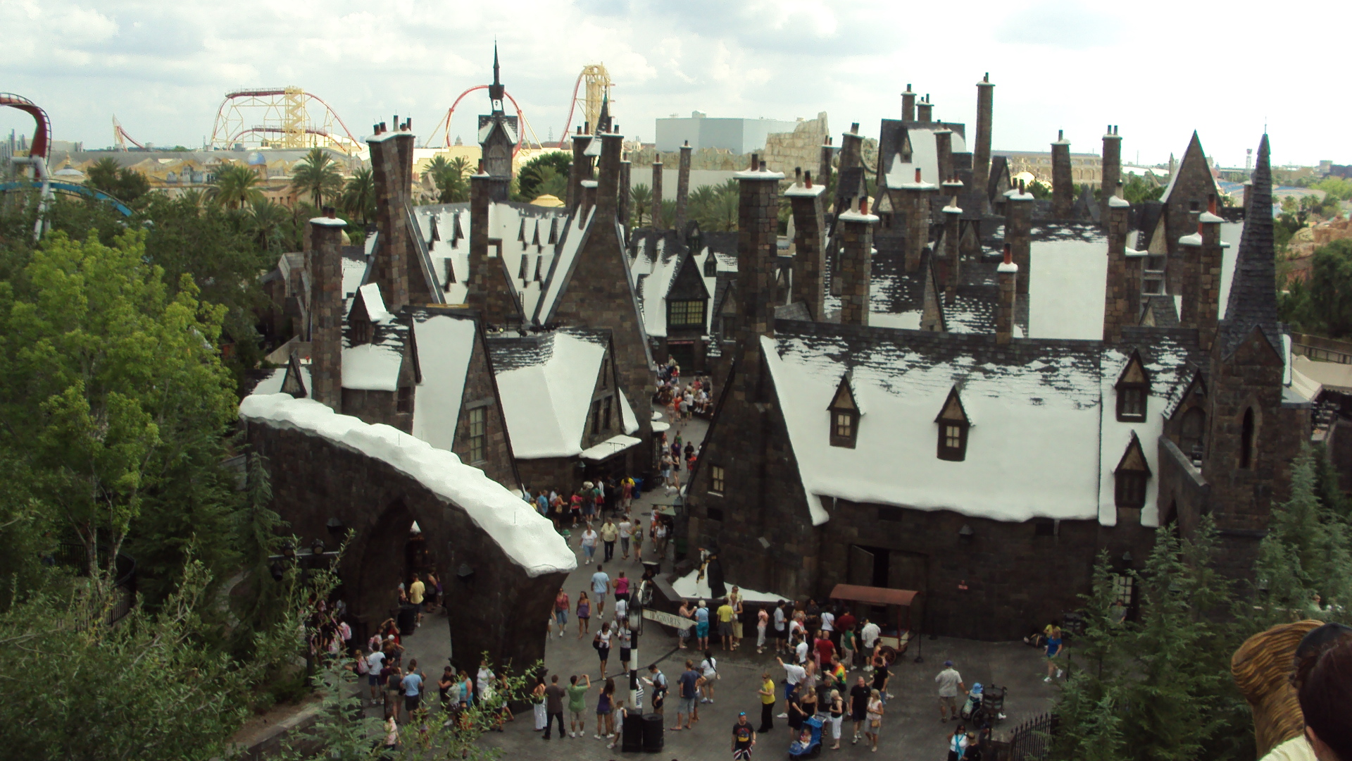 The Wizarding World of Harry Potter, at Islands Of Adventures, Orlando, FL